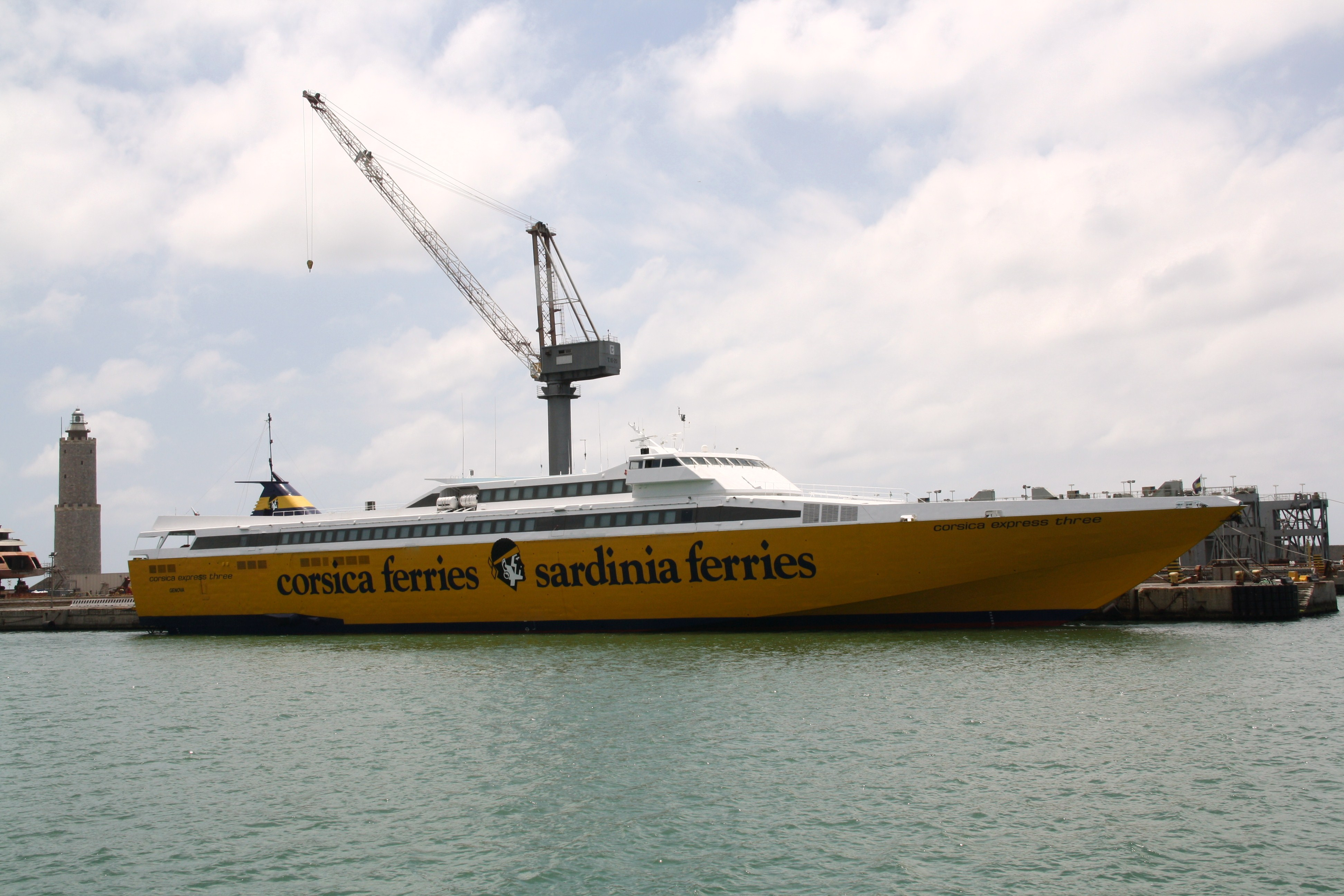 Italy IMO: 9135963 MMSI: 247061600 Callsign: IBBV Shipowner: Forship, Vado Ligure, Italy Type: roll-on/roll-off Year of construction: 1996 Shipyard: I.N.M.A., La Spezia, Italy Yard number: Port of registry: Genova Former name: Corsica Express III until April 2002 Dead weight:280 t Gross tonnage: 3530 t Length o.a.: ca. 105 m Breadth: ca. 14 m Draught: ca. 12.3 m